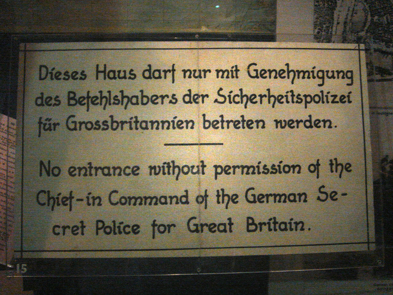 Notice printed by the German police in advance of the invasion of Britain in WW2. Imperial War Museum, London.